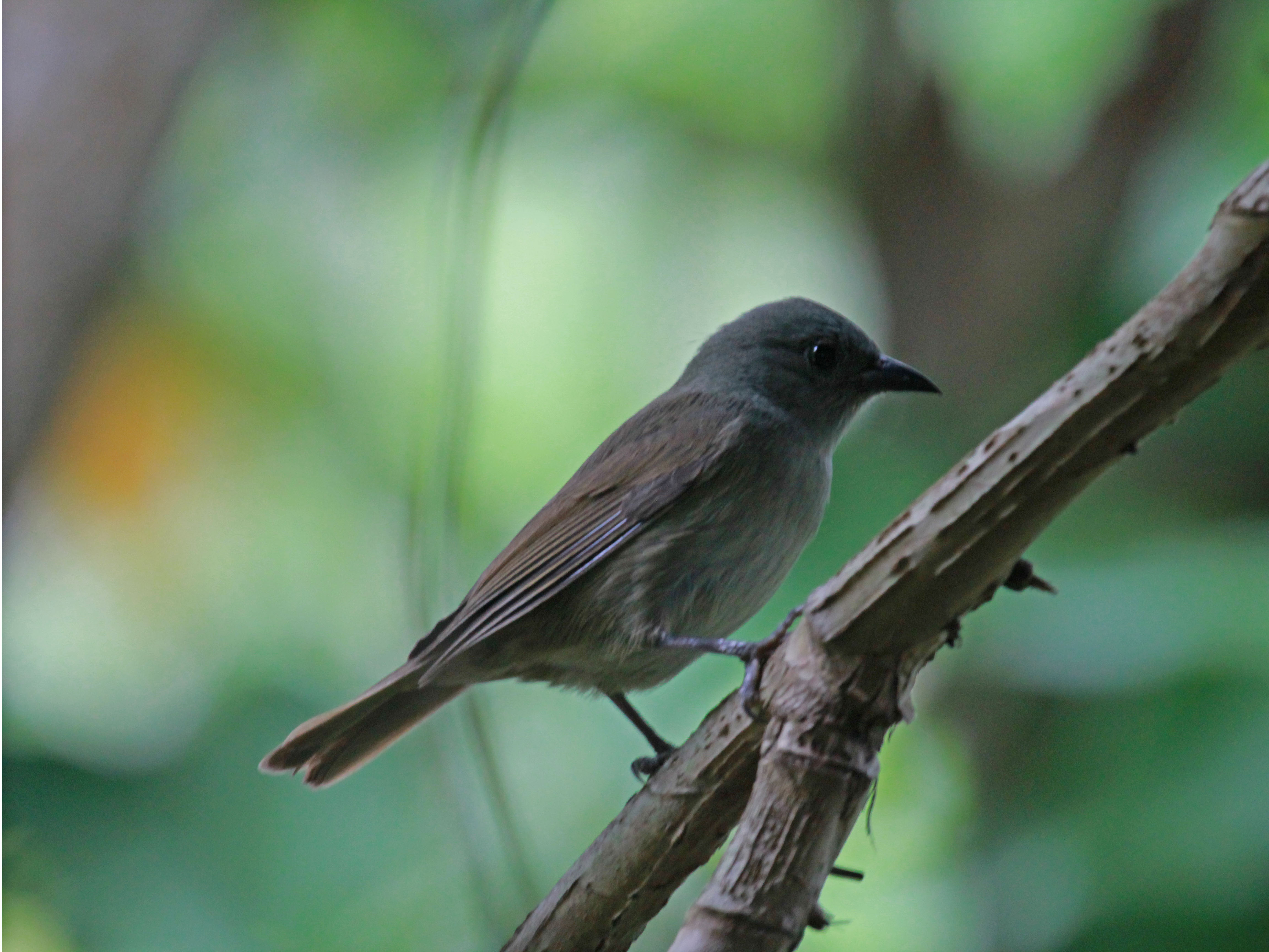 Female Orangequit (Euneornis campestris) - Rockwell Feeding Station, Negril, Jamaica